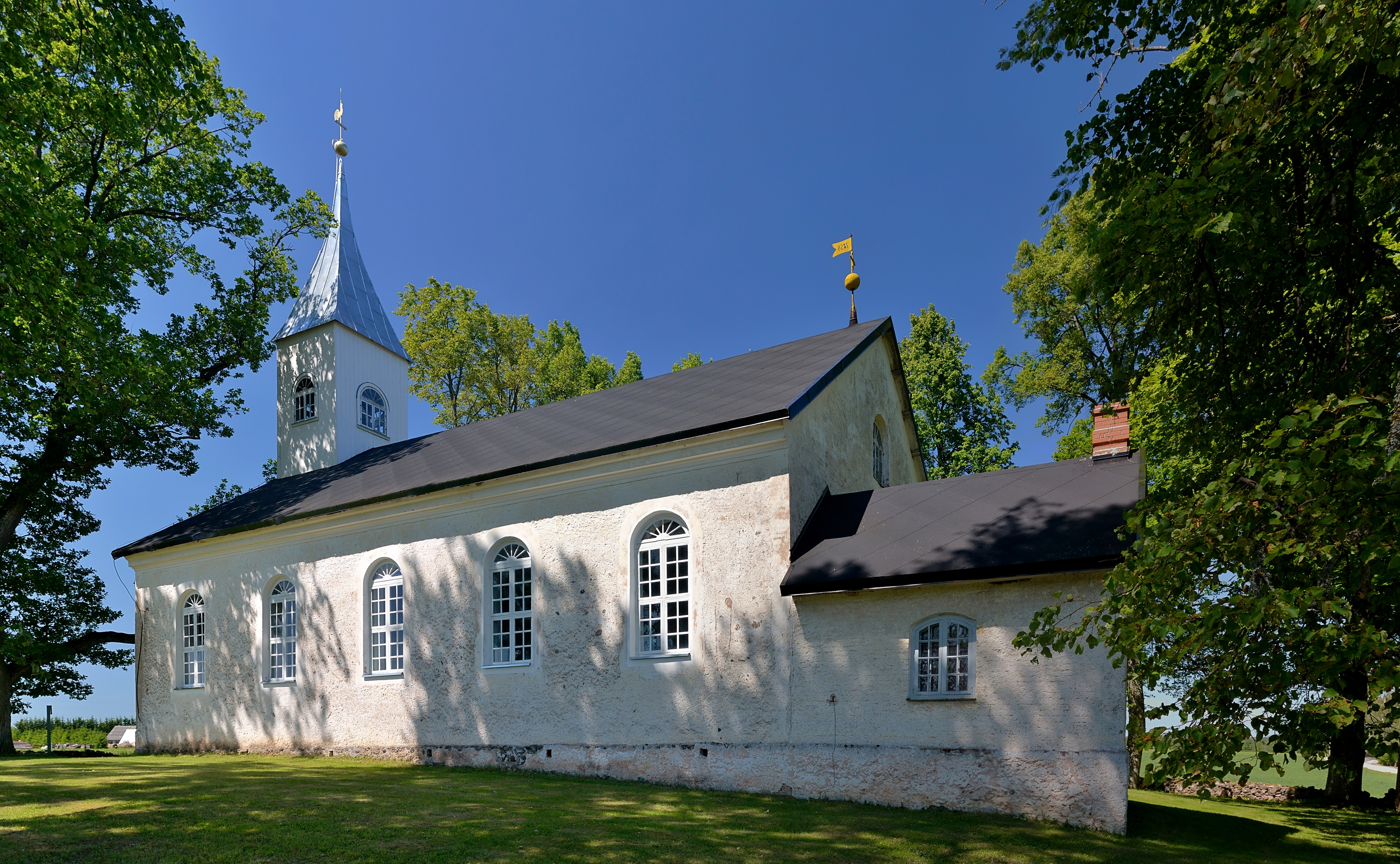 Vara church